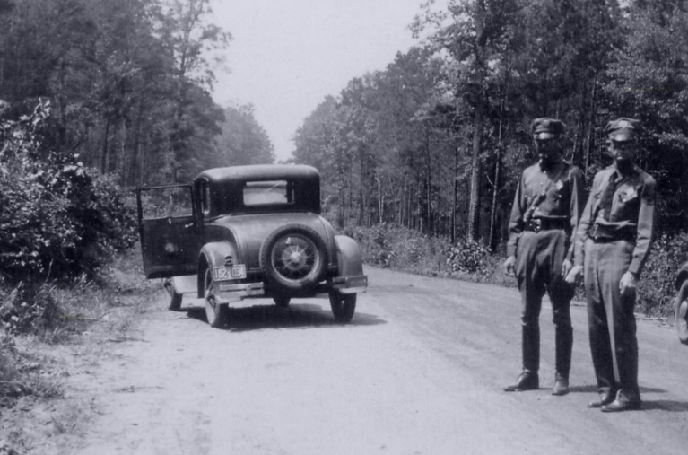 snapshot by unknown photographer of spot where Bonnie & Clyde were ambushed, 5/23/34